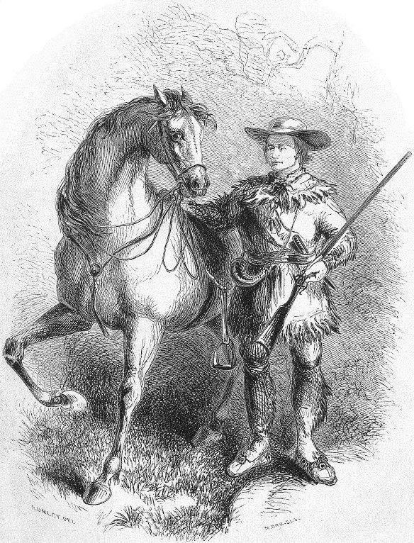 Carson and his horse, frontispiece to The Life and Adventures of Kit Carson, the Nestor of the Rocky Mountains, from Facts Narrated by Himself, by De Witt C. Peters